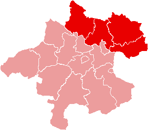 Map of Upper Austrian quarter "Mühlviertel"